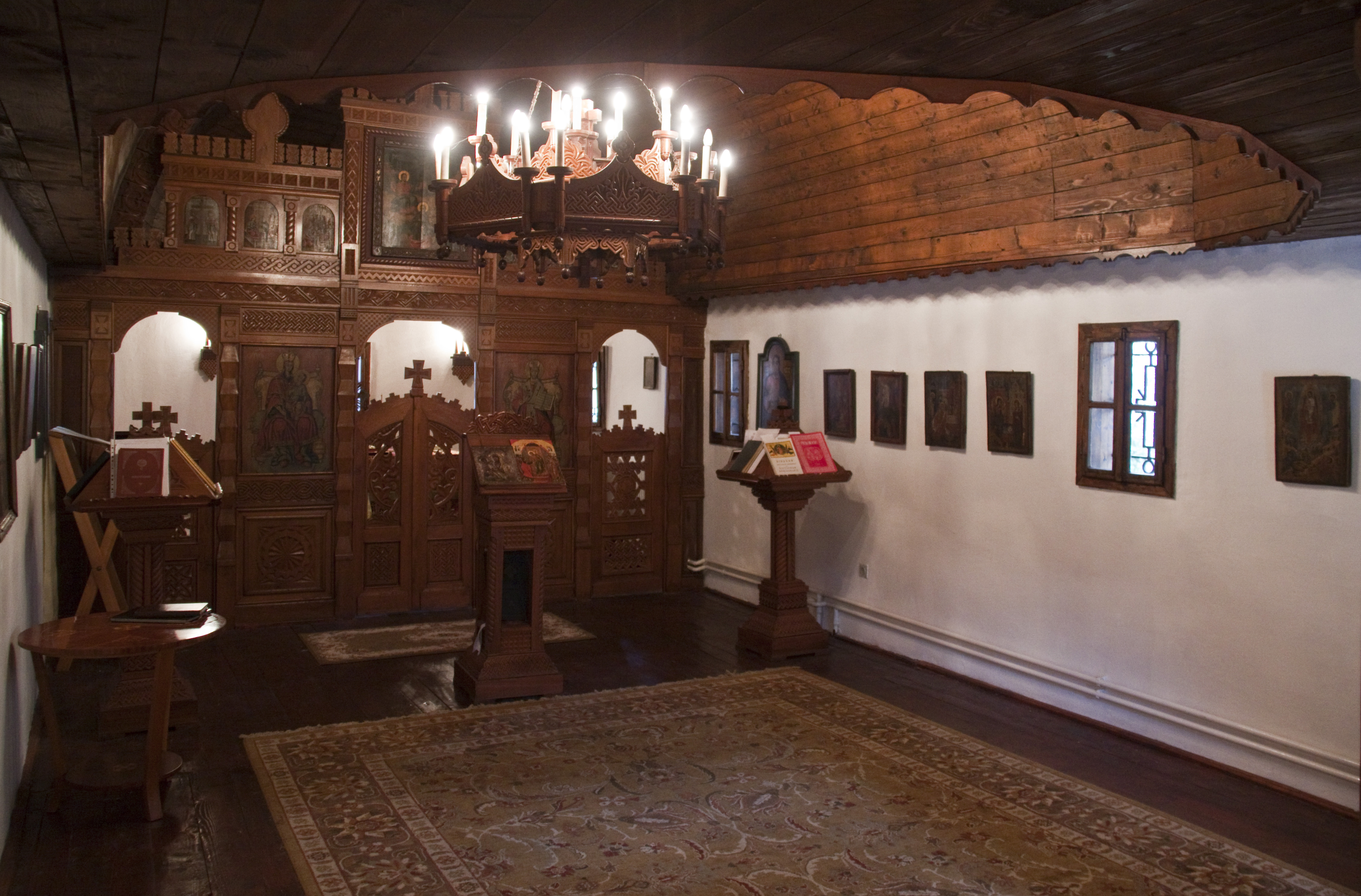 Hodoş, Timiş county, Romania: the wooden church transferred in Timişoara, the nave.